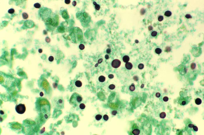 ID#: 963 Description: Cryptococcosis of lung in patient with AIDS. Methenamine silver stain. Histopathology of lung shows numerous extracellular yeasts of Cryptococcus neoformans within an alveolar space. Yeasts show narrow-base budding and characteristic variation in size. Content Providers(s): CDC/ Dr. Edwin P. Ewing, Jr. Creation Date: 1984 Copyright Restrictions: None - This image is in the public domain and thus free of any copyright restrictions. As a matter of courtesy we request that the content provider be credited and notified in any public or private usage of this image.